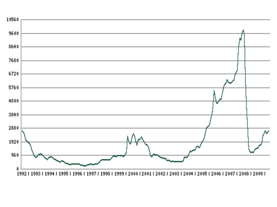 Rhodium prices 1992-2009